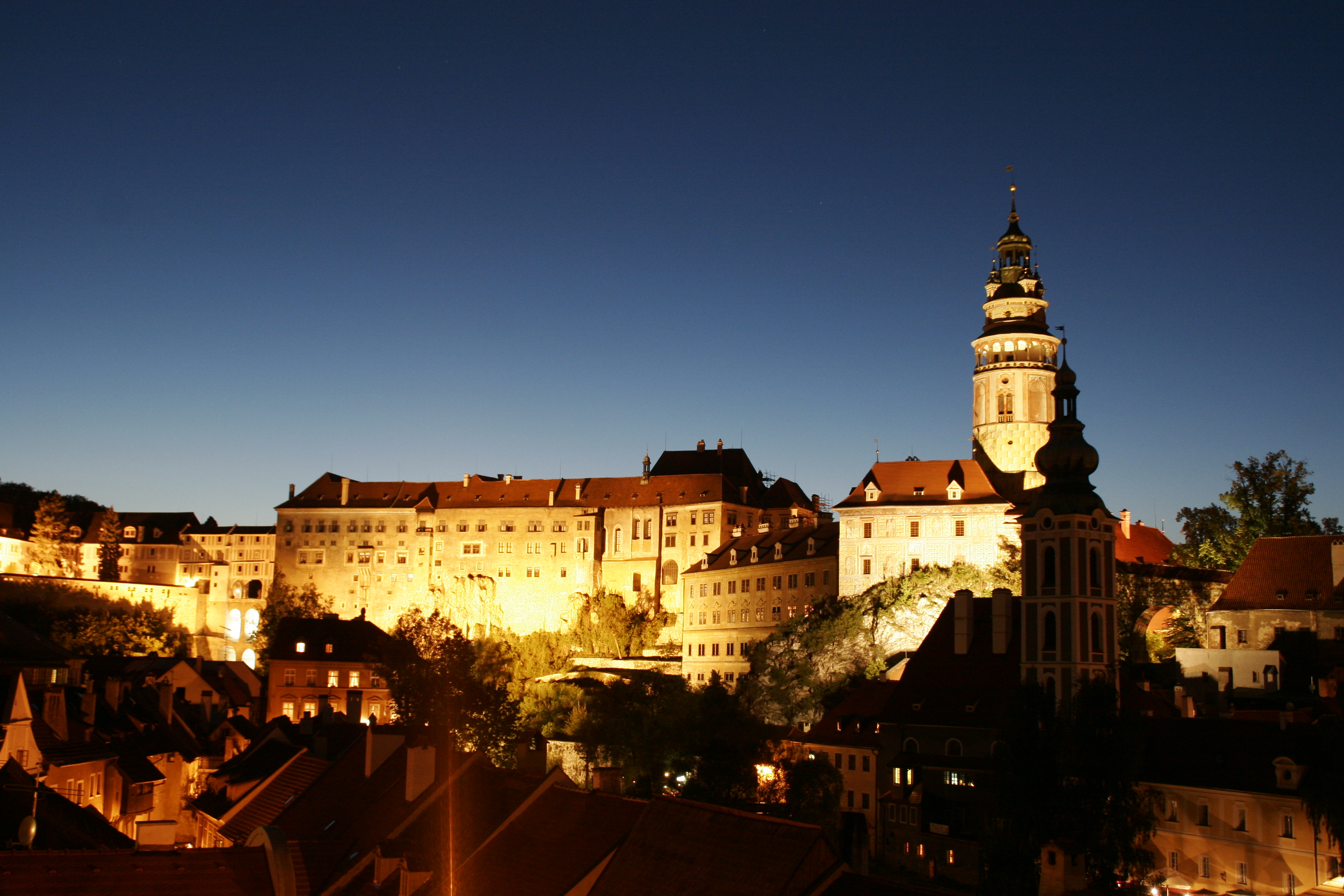 Cesky Krumlov Castle at night